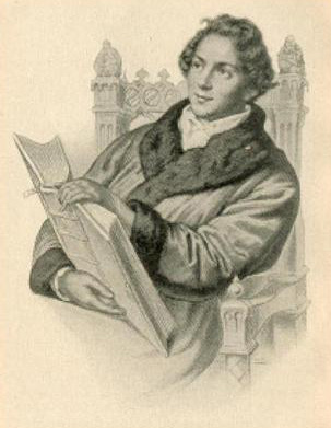 Konstantin von Tischendorf (1815–1874), German theologian, around 1841